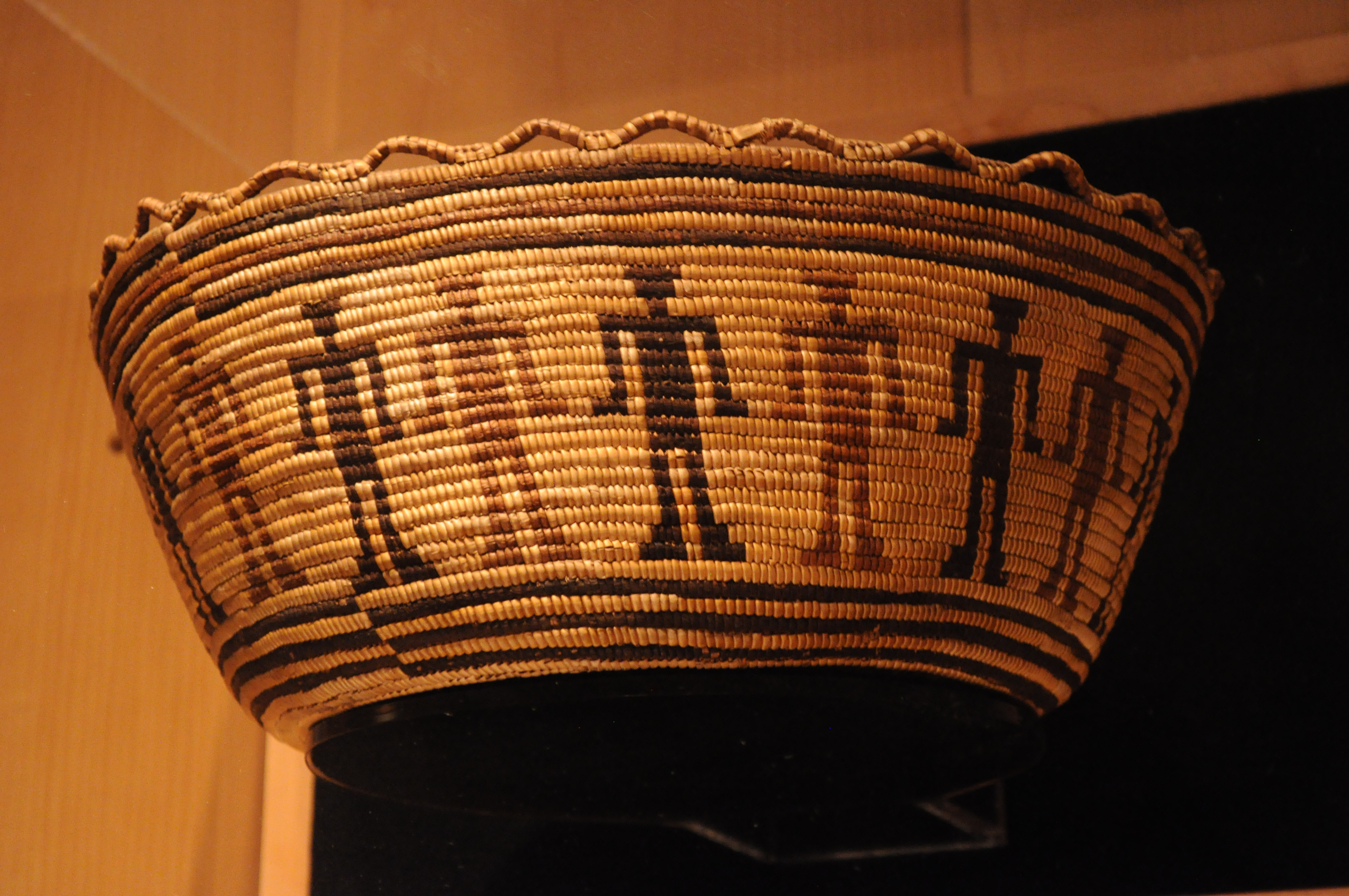 Coiled and imbricated cedar root basket. Chehalis tribe. Washington State History Museum.